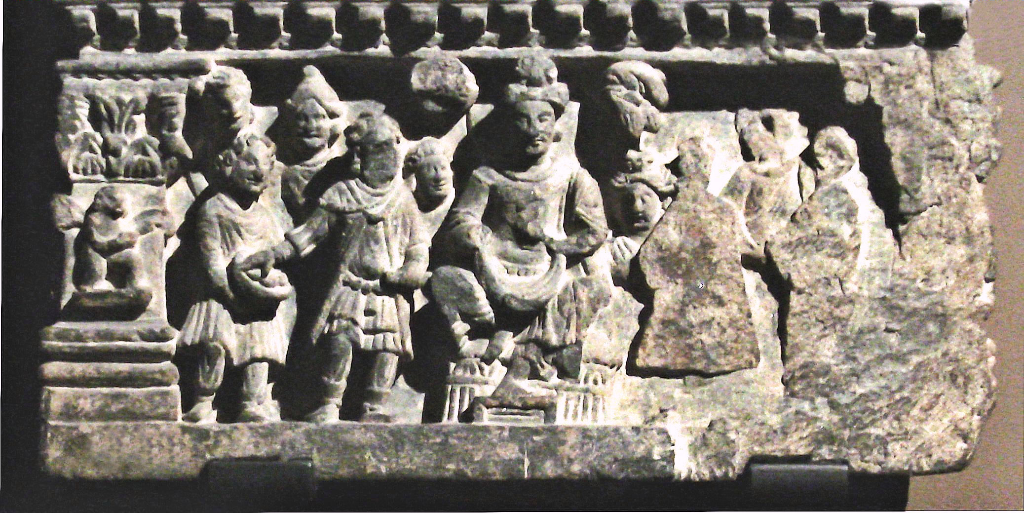 Kushan_donor_and_Bodhisatva